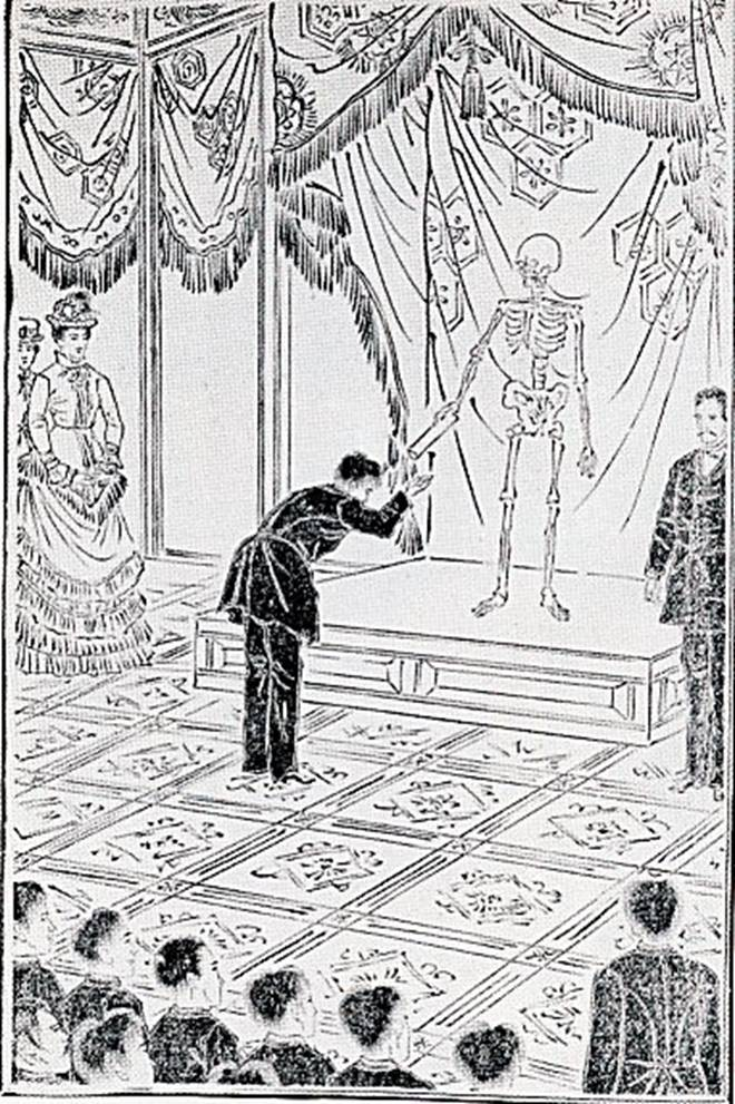 "Promulgation Ceremony for the Sharpening of the Ready Wit Law", a satirical cartoon parodying a triptych of Emperor Meiji receiving the Meiji Constitution in 1889. The artist was jailed and fined for the offense